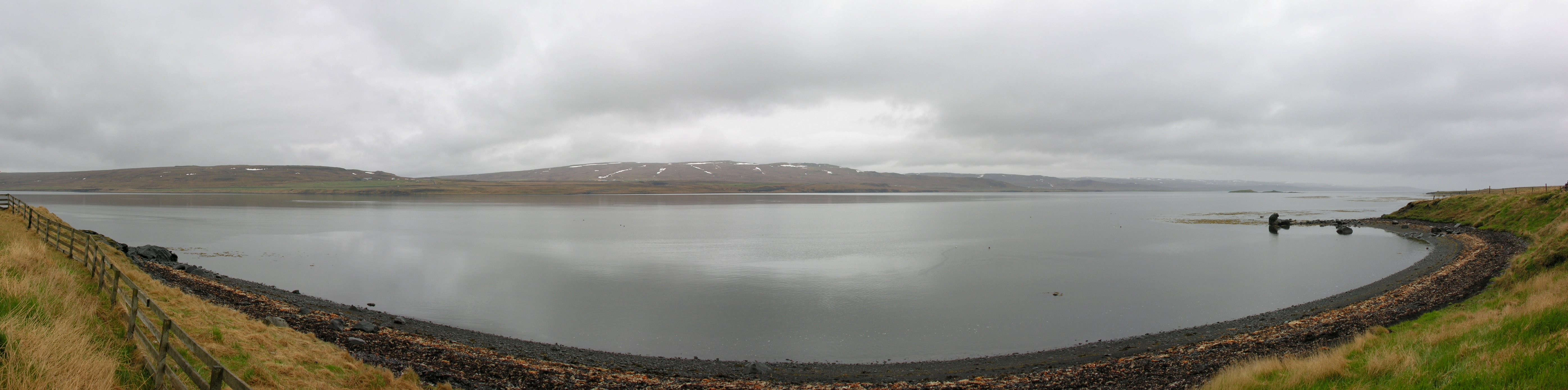 Iceland, Hrútafjörður North of Reykir